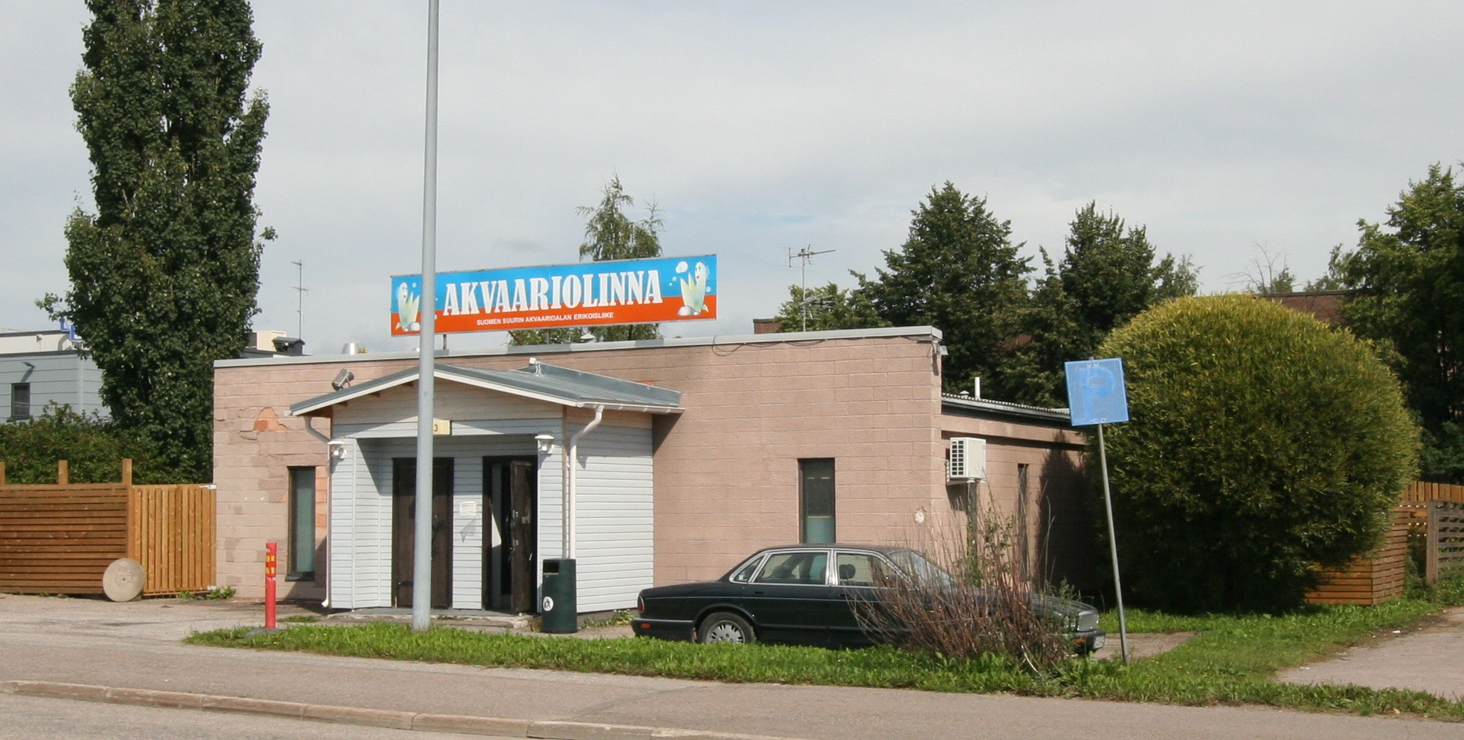 Akvaariolinna: former aquarium exhibition, now specialist shop